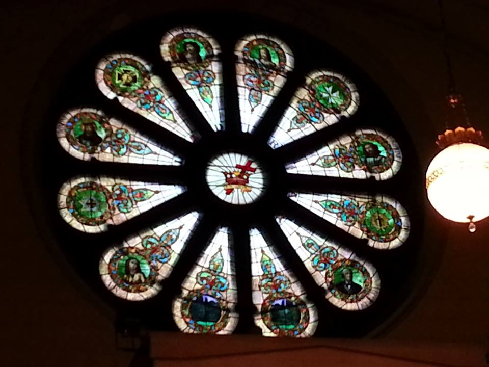 Stained glass rose window of the Minneapolis Scottish Rite Temple from the inside during the day. The bright circle on the right is an indoor lamp